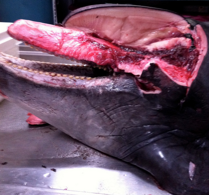 The bisected head of a dolphin carcass, exposing the melon.